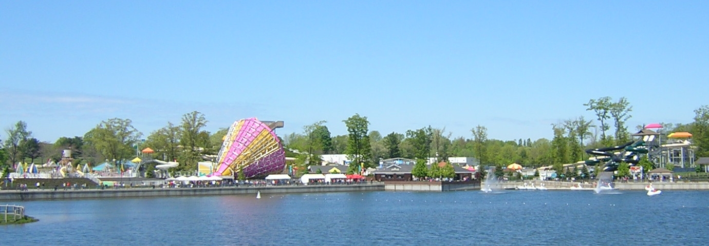 water park at Michigan's Adventure metro Muskegon area.